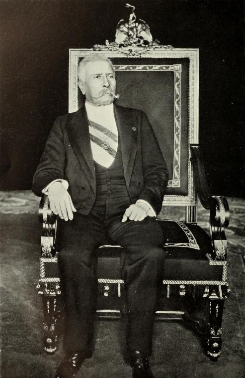 Portrait of president Porfirio Díaz